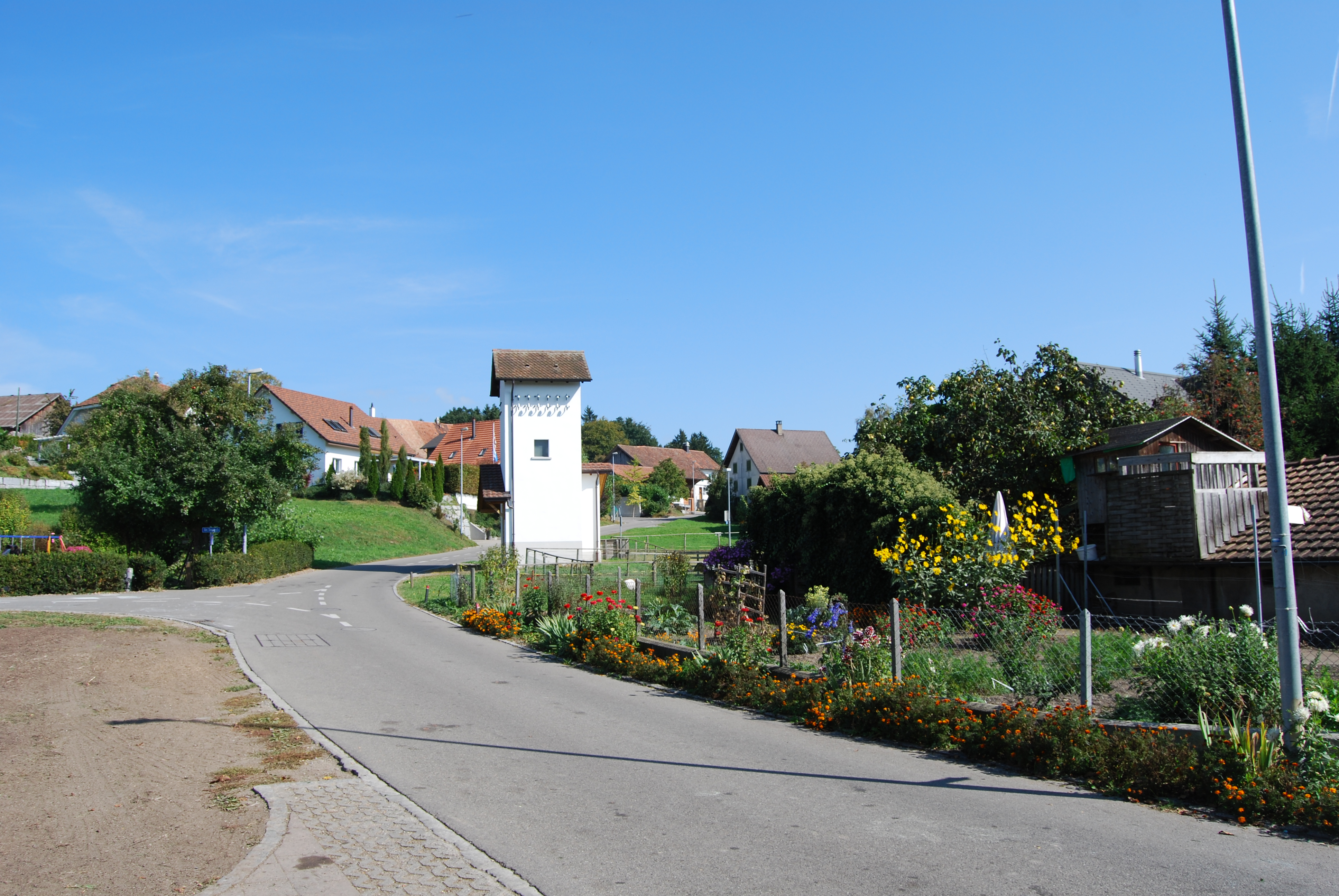 Besenbüren, canton of Aargau, SwitzerlandEsperanto: Besenbüren, Kantono Argovio, Svislando